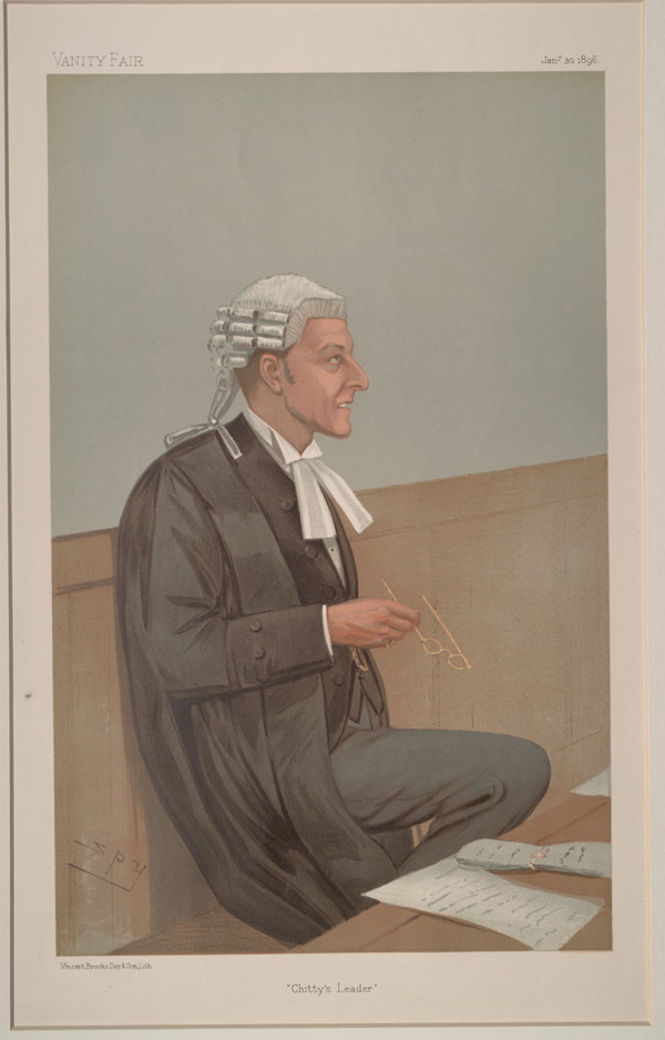 Statesmen No.664: Caricature of Mr Edmund Widdrington Byrne QC MP. Caption reads: "Chitty's Leader"